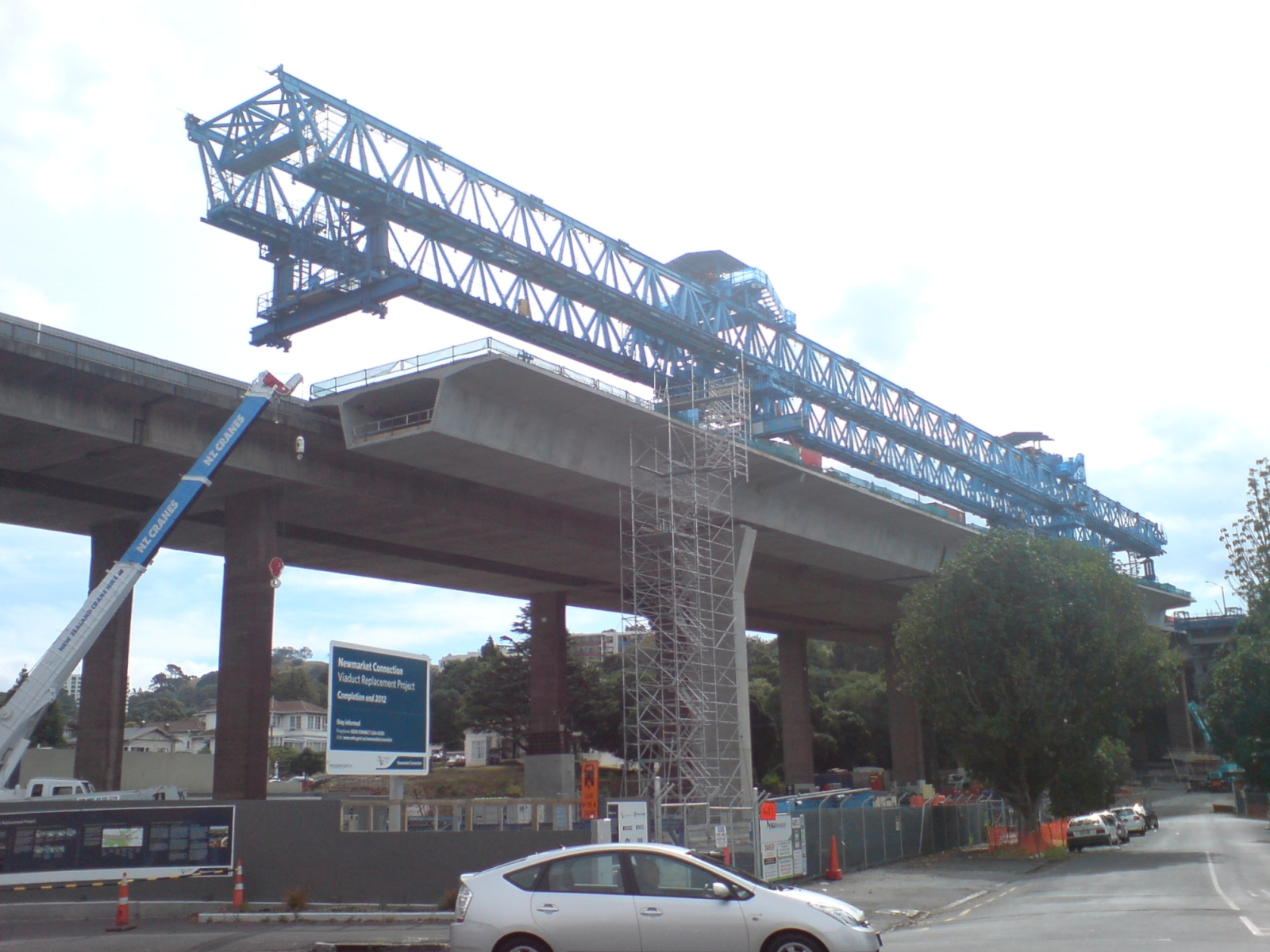 Work on the Newmarket Viaduct continues in Auckland, New Zealand. The half-finished southbound viaduct, looking west into Clovernook Road.